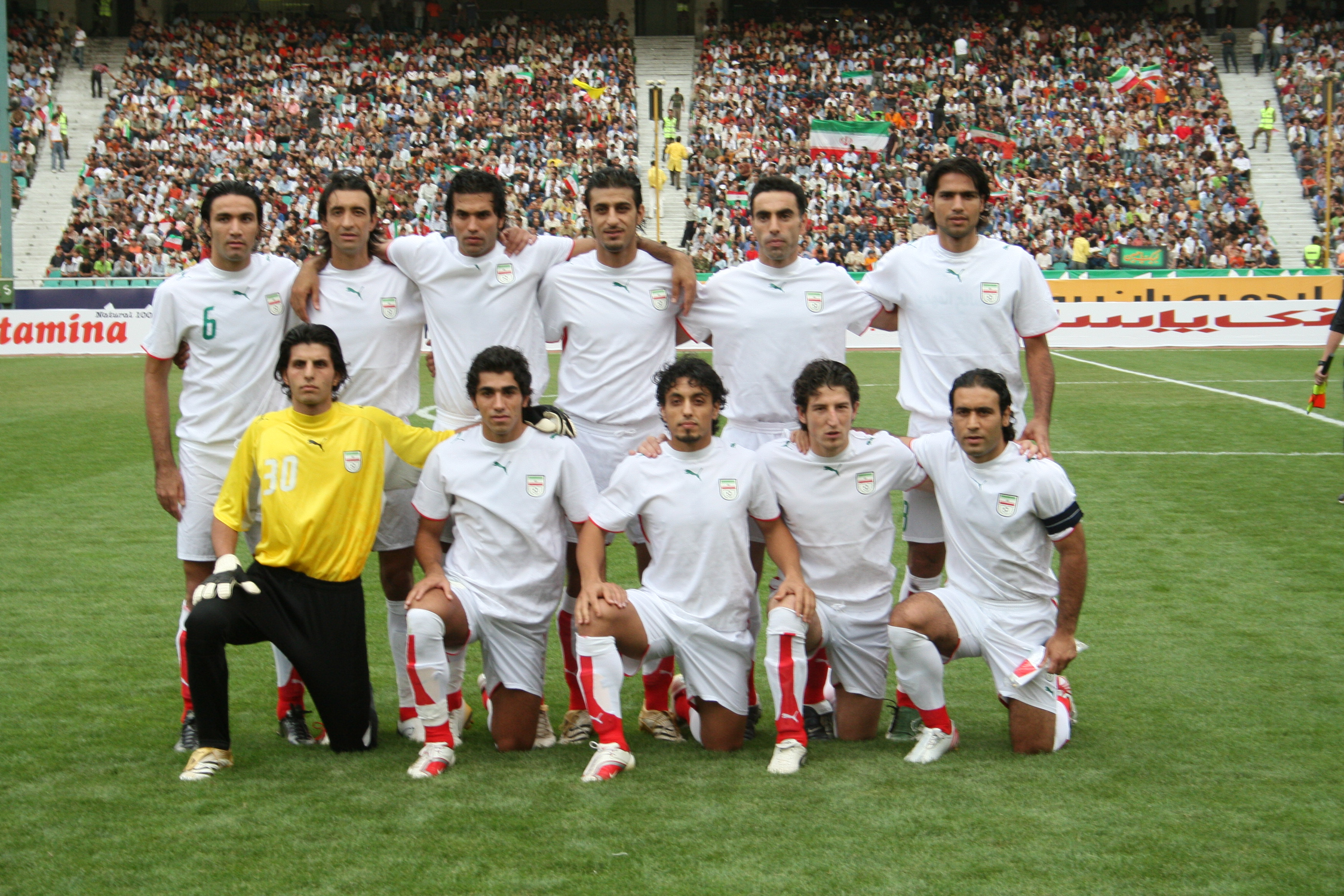 Iran National Football team